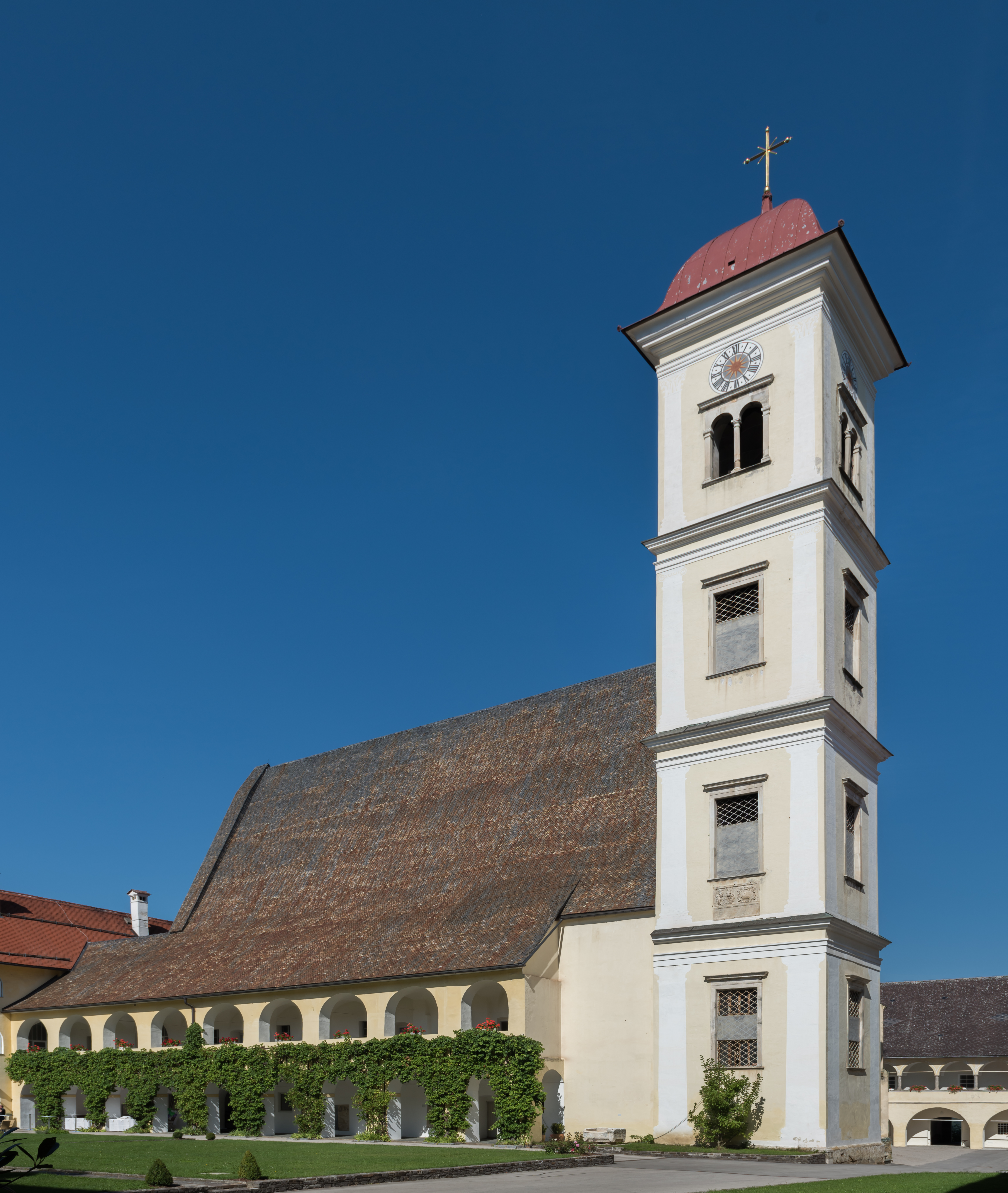 Parish and former monastery church Saint George on Schlossallee #2, municipality Sankt Georgen a. L., district Sankt Veit, Carinthia, Austria, EU